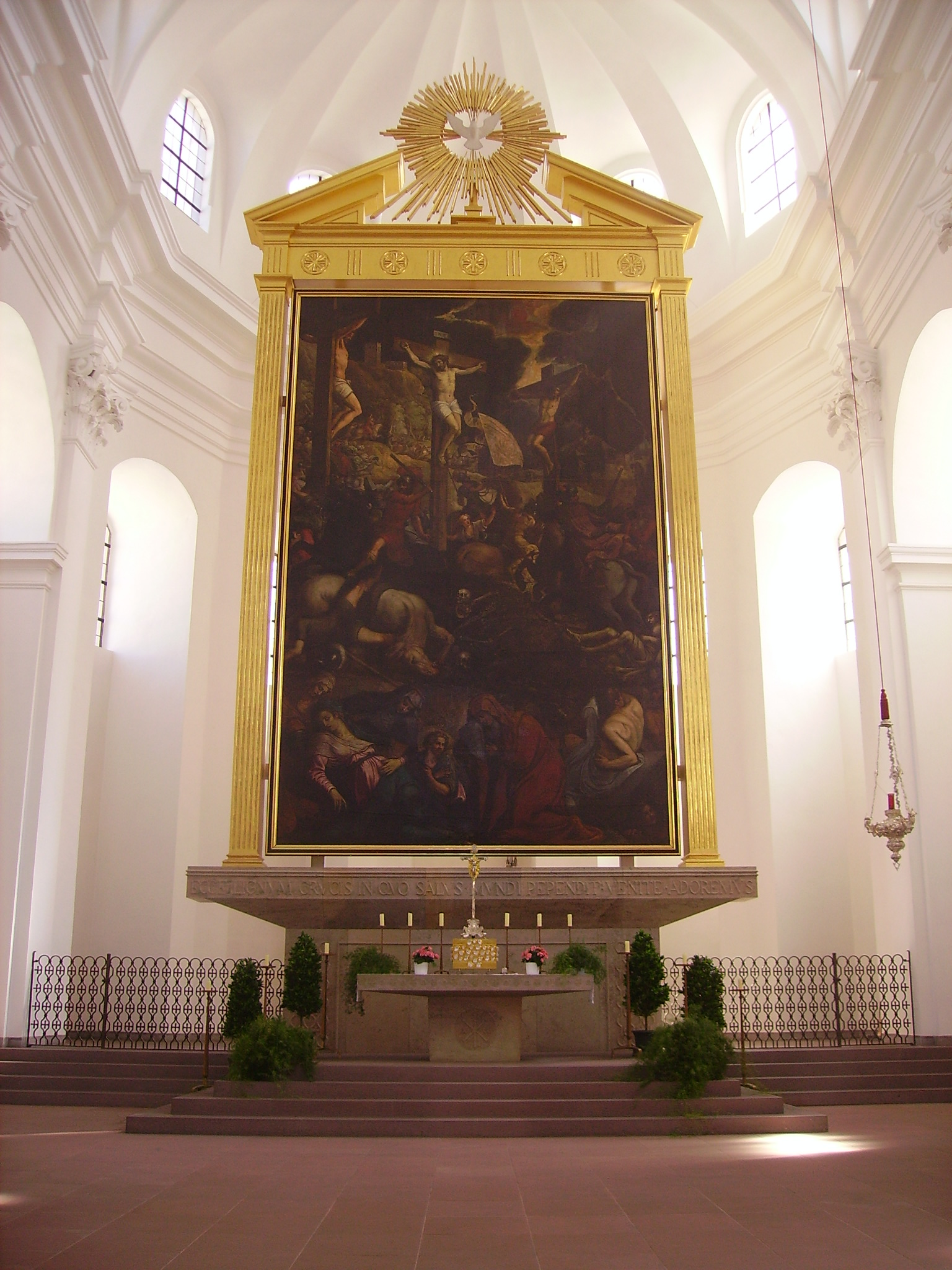 High Altar of Haug Church, Würzburg